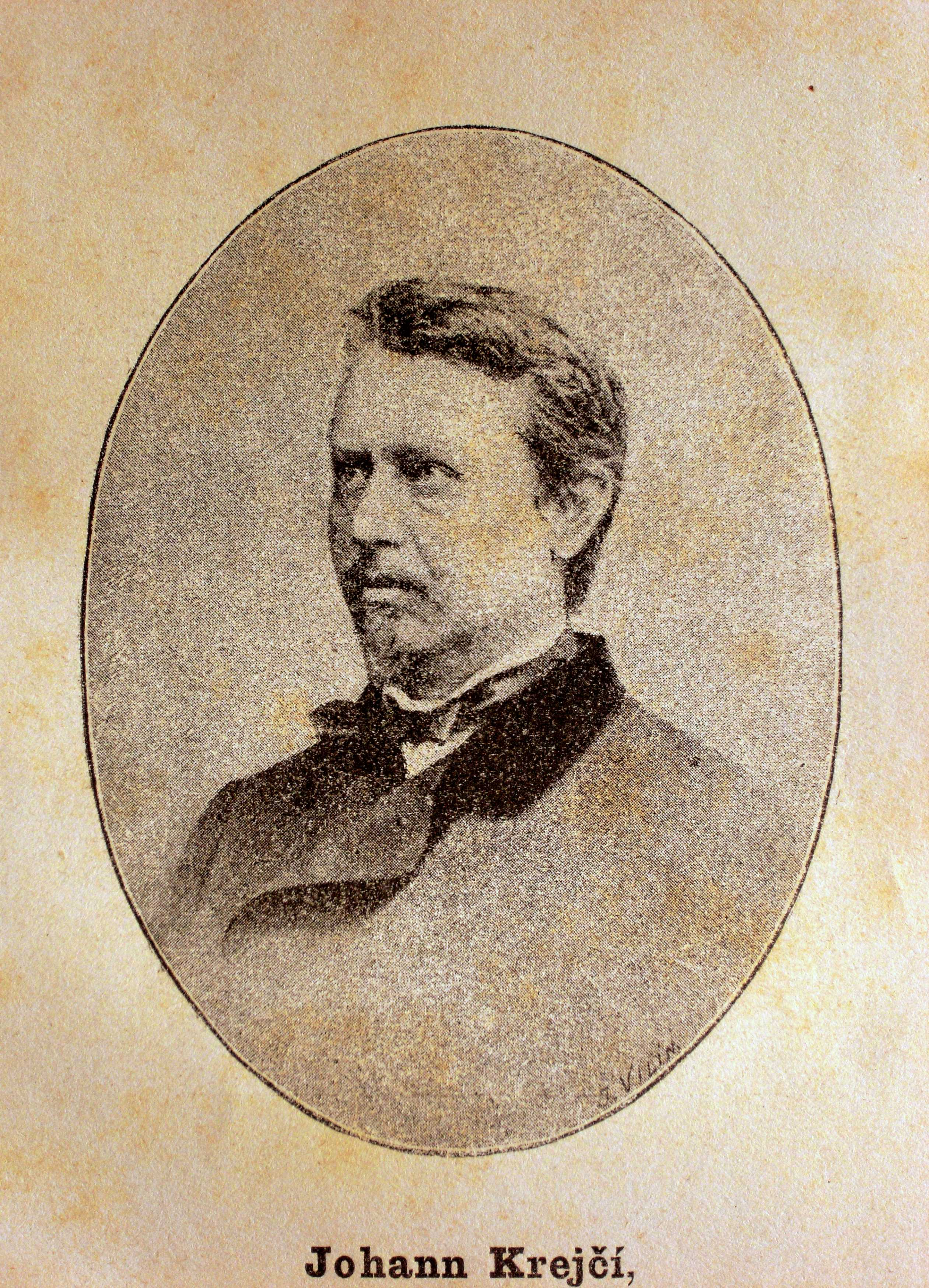 Jan Krejčí, Bohemia, 19th century